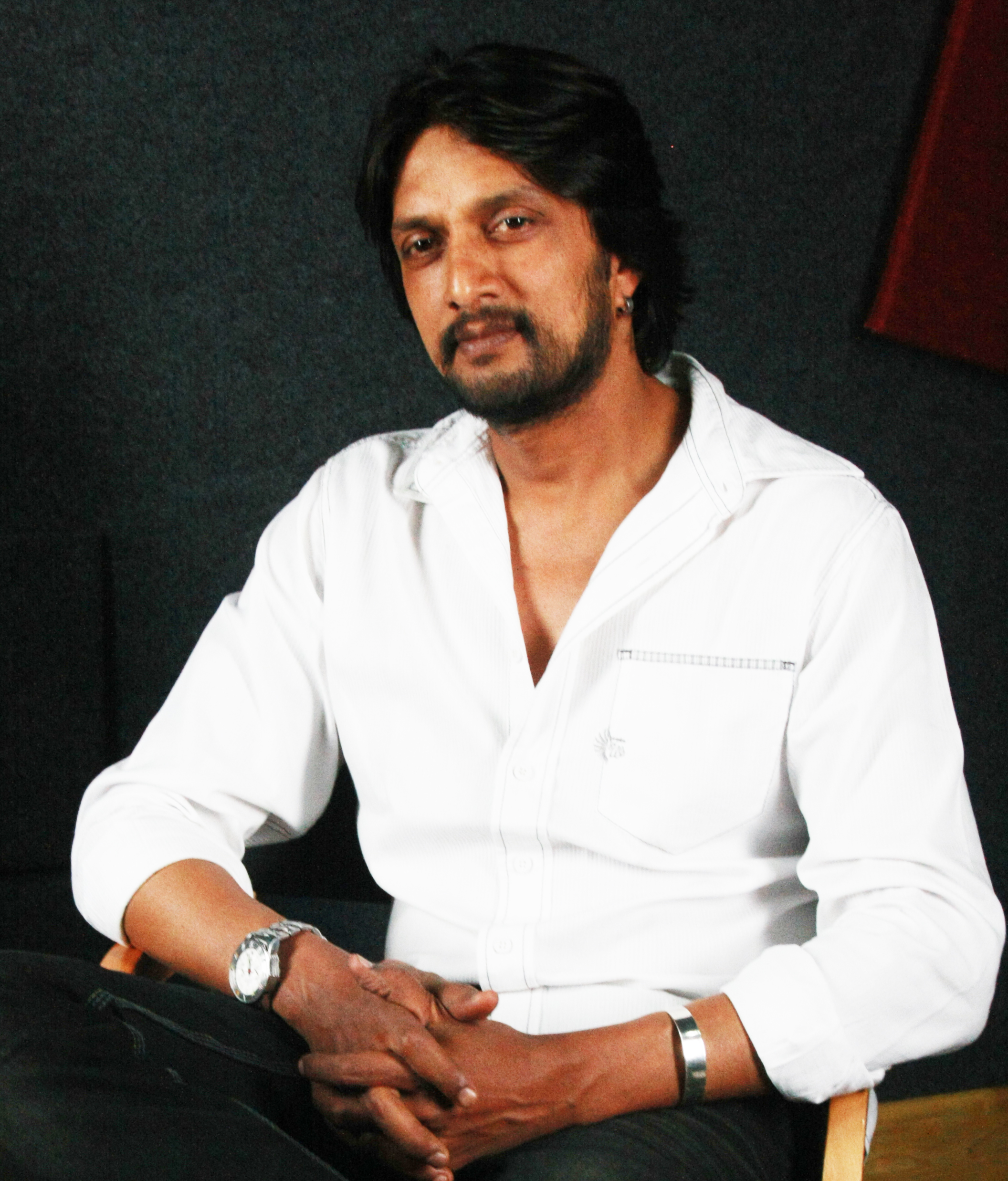 Actor Sudeep gives a behind-the-scenes interview for the Kannada language version of the TeachAIDS animation in Bangalore, Karnataka. Photo credit: TeachAIDS